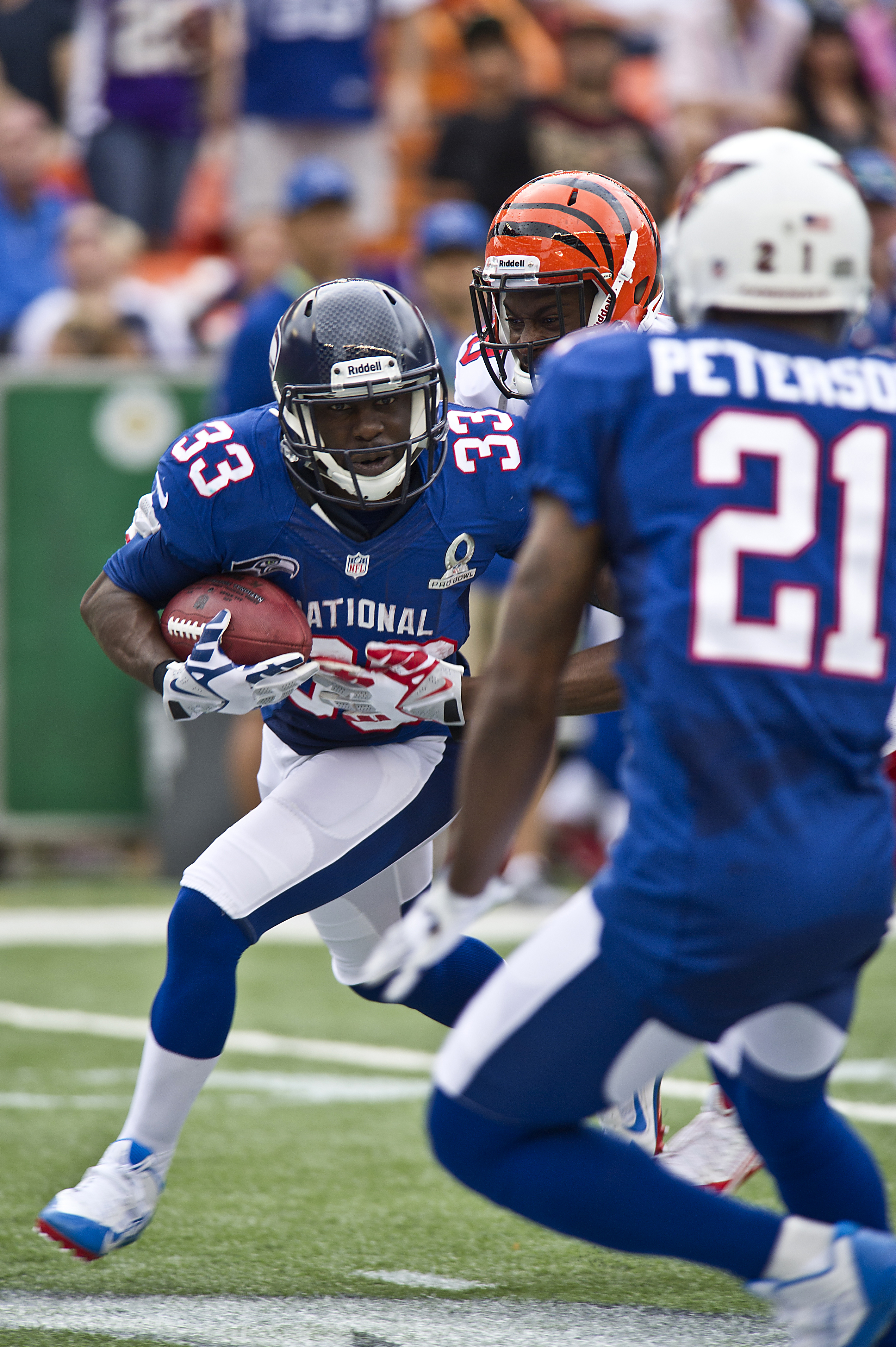 Leon Washington, Seattle Seahawks' kick returner during the 2013 Pro Bowl